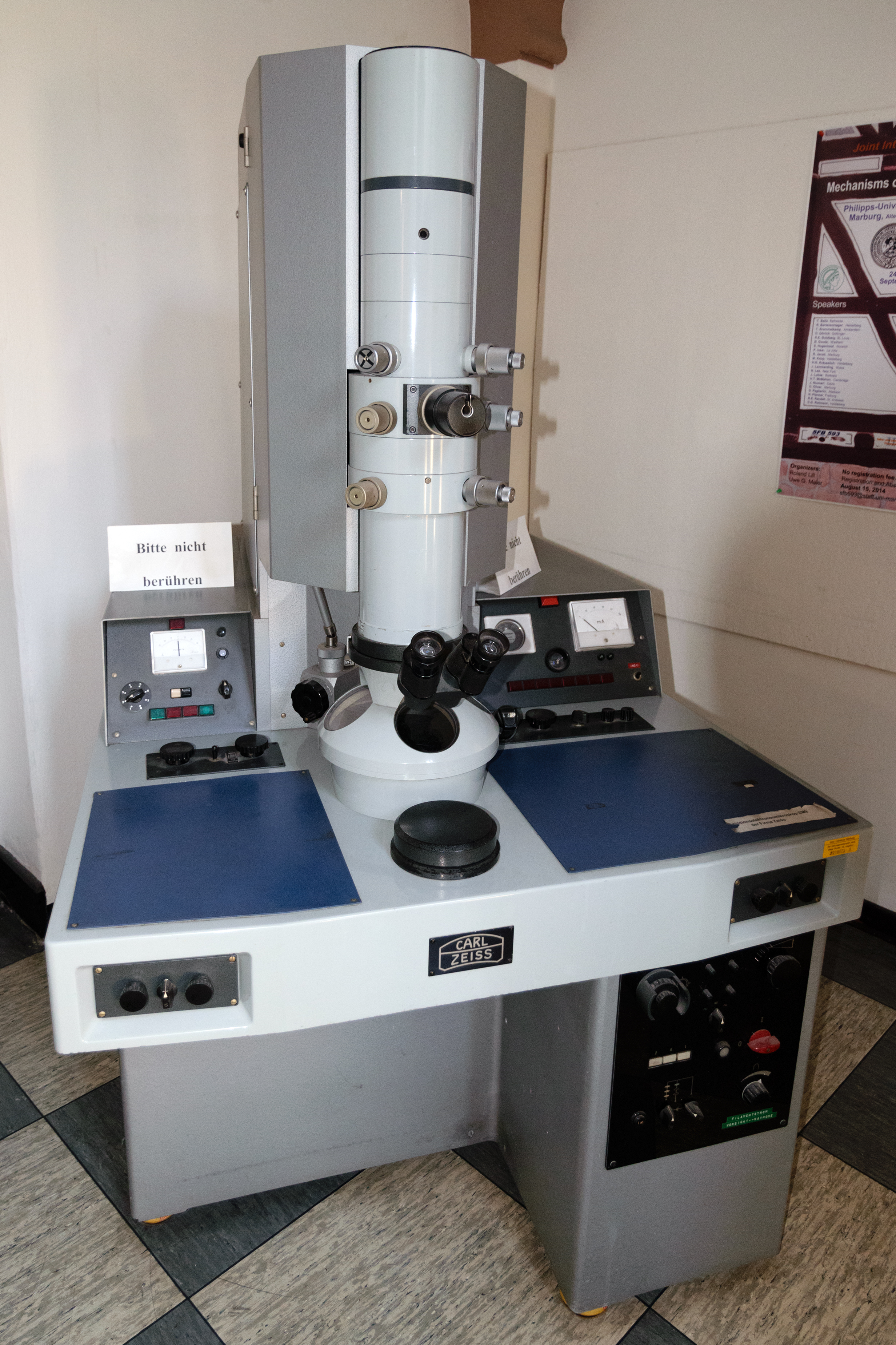 Old Electron microscope in Institute for Cell Biology in Marburg